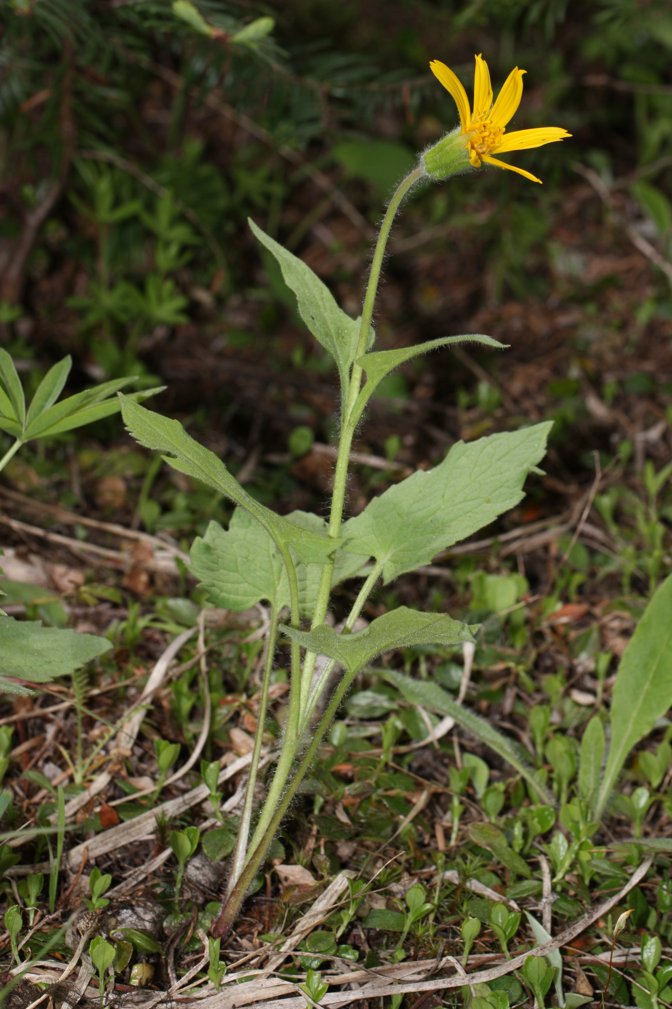 Heart-leaf Arnica, Heart-leaf Leopardbane Viewpoint location: Swauk Forest Discovery Trail, Wenatchee Mountains Viewpoint elevation: 1287 meter (4222 ft) Location source: Garmin GPSmap 60CSx Location Datum: WGS84